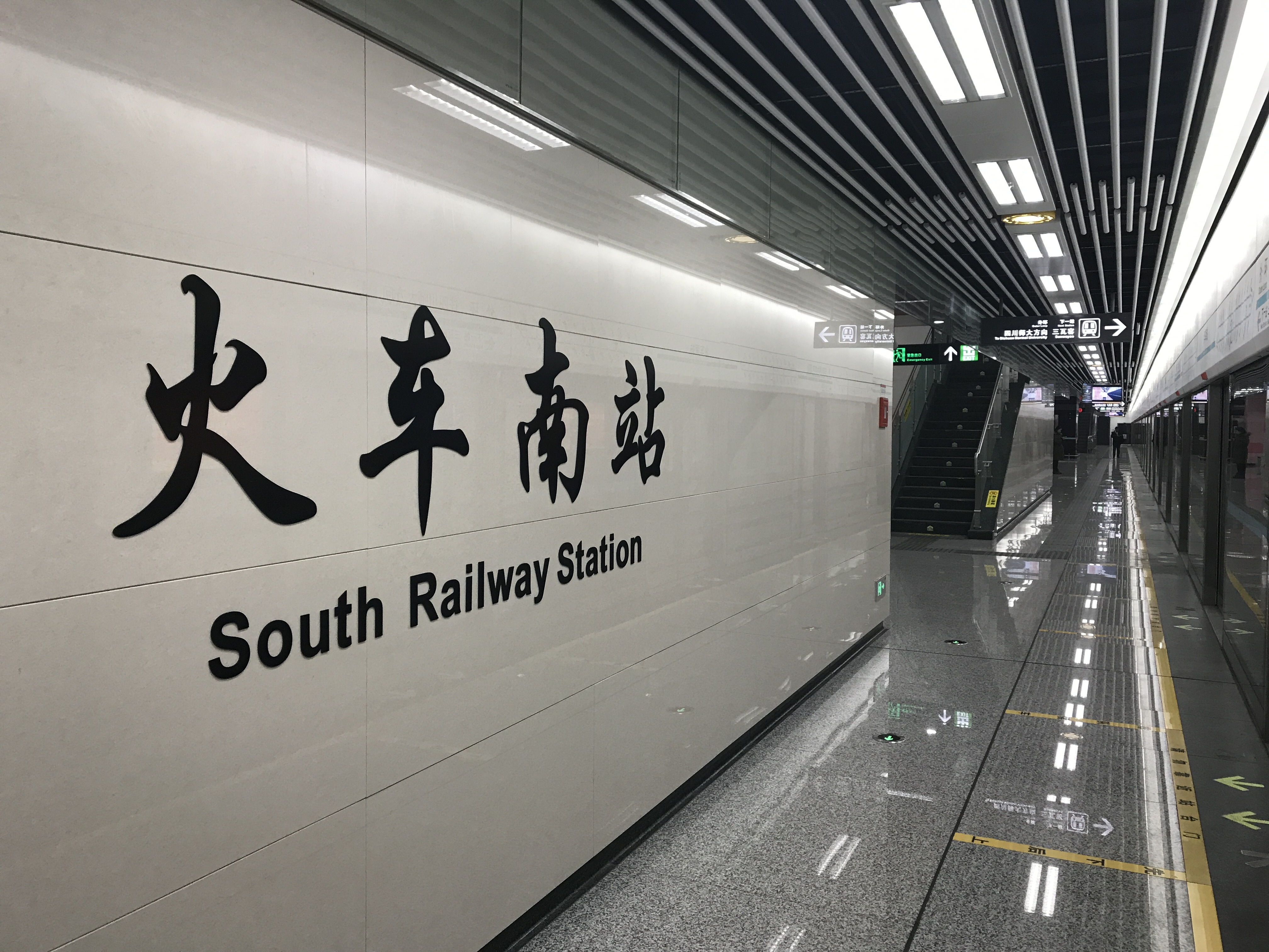 Platform of Line 7 in South Railway Station, Chengdu Metro